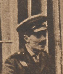 Lieutenant colonel Christopher Thomson, British defence atachee in Romania during the WWI